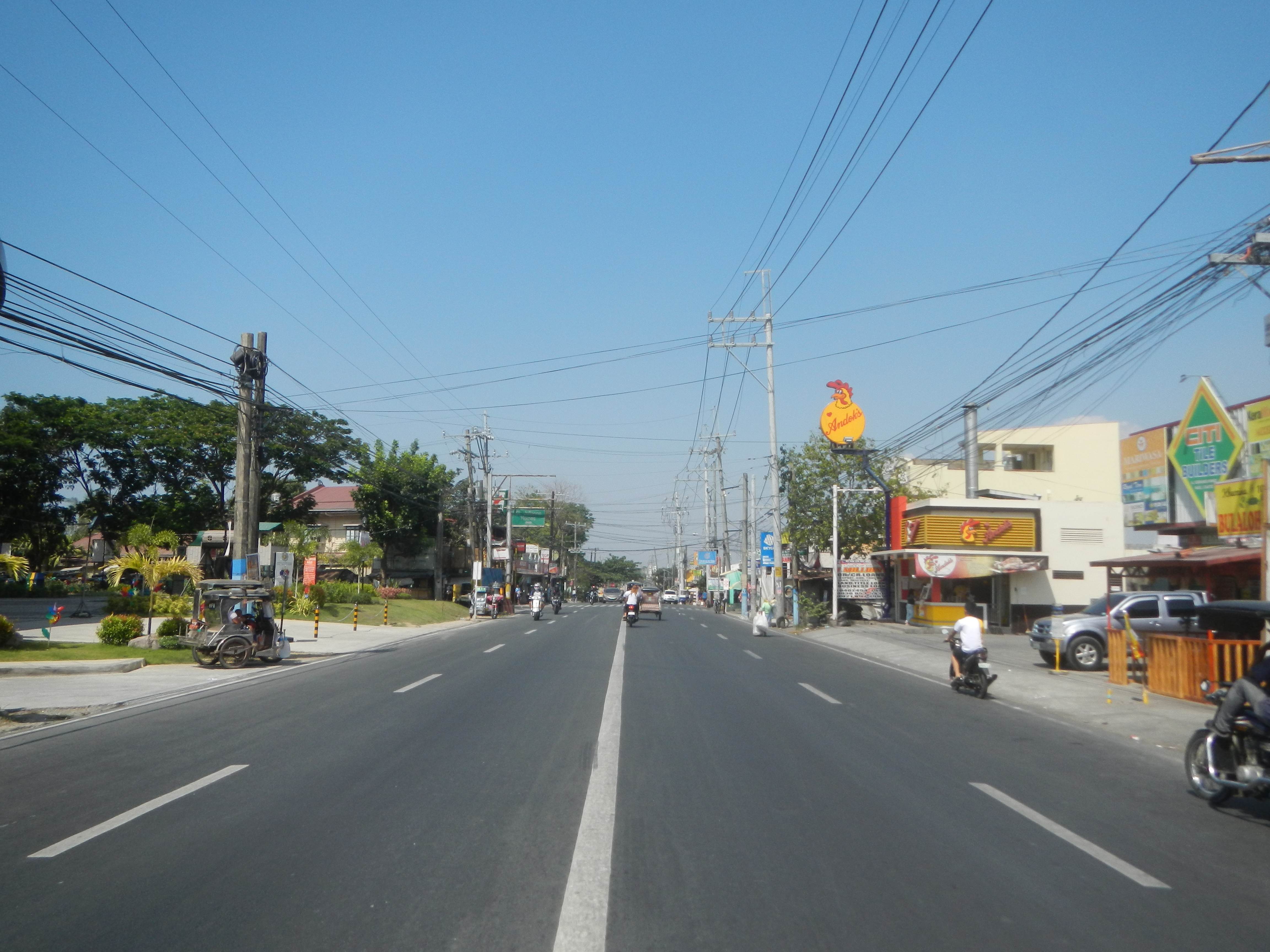 The Stadium Shopping Strip Antero Soriano Highway N402 highway (Philippines) Antero Soriano Highway (N402 highway Philippines - Tanza-Naic, Cavite) Ibayo Silangan, Naic, Cavite Welcome to Naic (Antero Soriano Highway) Naic Junction-Maragondon-Ternate-Caylabne Junction-Puerto Azul Road at Naic Junction - Esteban Taparan's Guerilla Unit, World War II VFP Naic Post Monument Category:Barangays of Cavite Barangays Ibayo Silangan, Naic, Cavite 14.3215, 120.7739 Munting Mapino, Naic, Cavite 14.3334, 120.7752 Naic Cavite from Tanza–Trece Martires Road corner Trece Martires–Indang Road towards Aguinaldo Highway corner Governor's Drive Philippine highway network (Note: Judge Florentino Floro, the owner, to repeat, Donor Florentino Floro of all these photos hereby donate gratuitously, freely and unconditionally all these photos to and for Wikimedia Commons, exclusively, for public use of the public domain, and again without any condition whatsoever).